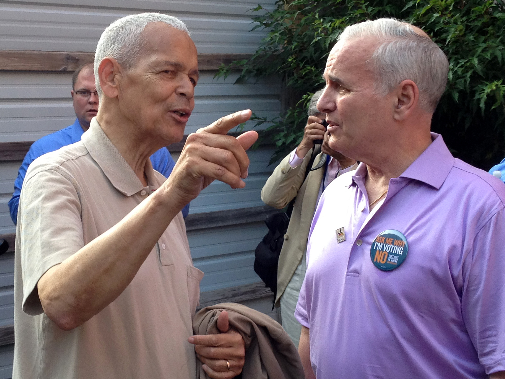 Julian Bond and Minnesota Governor Mark Dayton at a rally opposing the Minnesota Marriage Amendment.